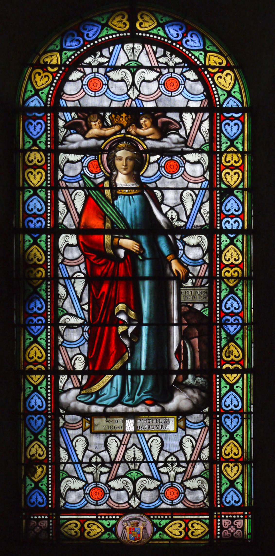 Basilique Saint-Eutrope de Saintes. Saintes, France. Window. Eutropius of Saintes lived as a hermit near Saintes and converted to Christianity the governor's daughter, Saint Eustella or Eustelle. According to tradition, the governor was so enraged by his daughter’s conversion that he had both her and Eutropius killed. Eutropius was killed by having his head split open with an axe.